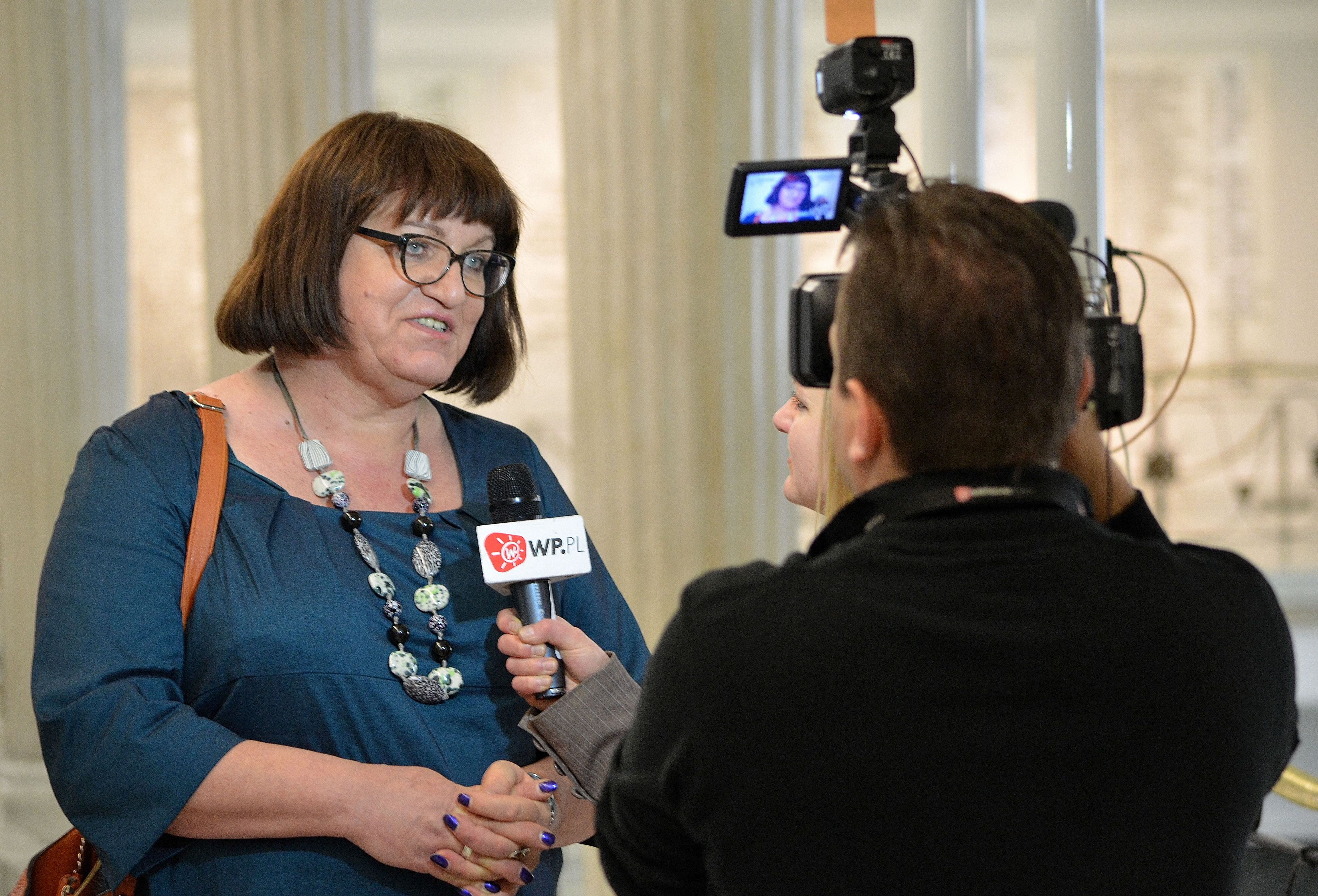 Polish MP Anna Grodzka interviewed in the Sejm